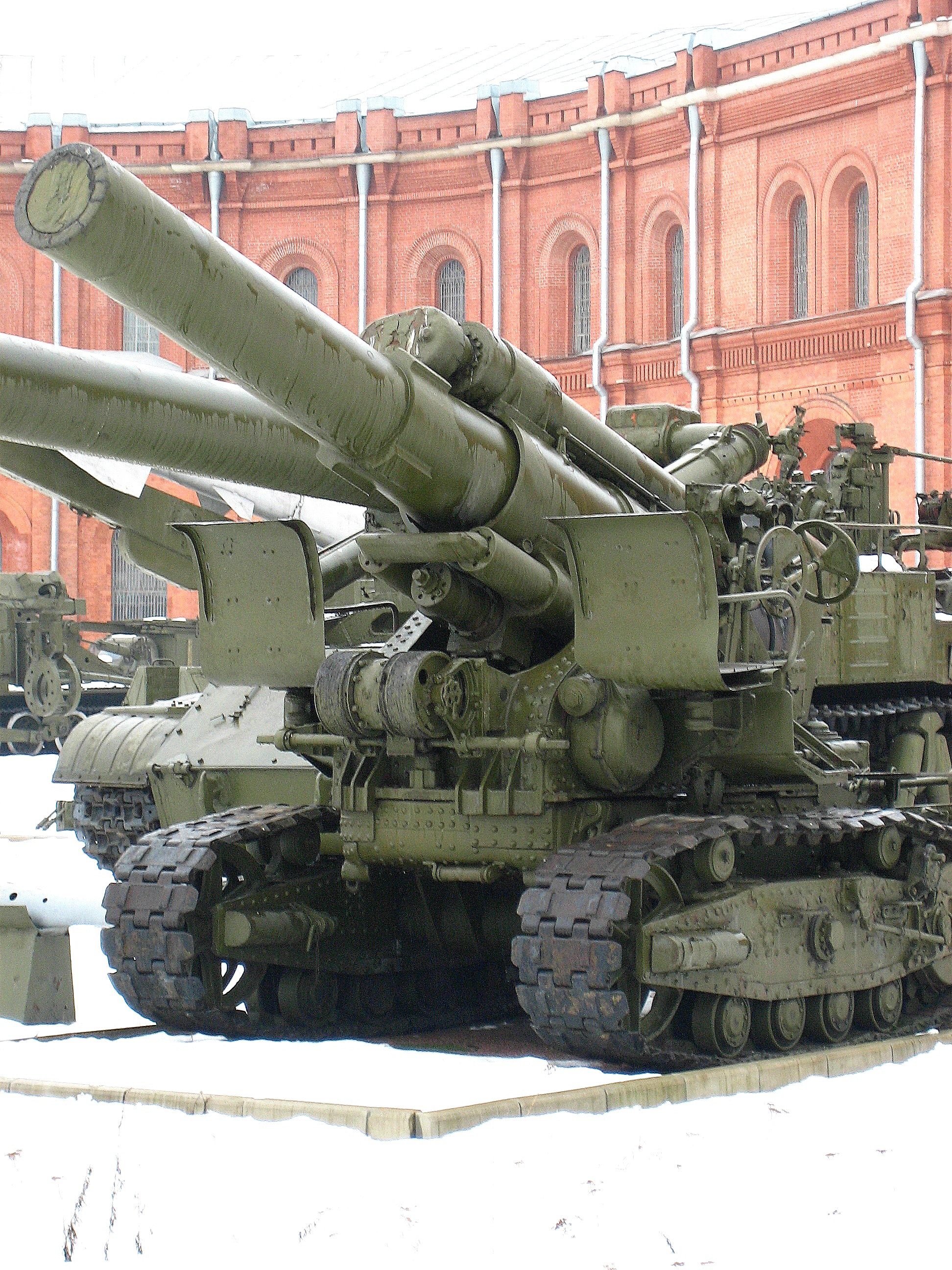 Soviet 280 mm Br-5 Mark 1939 mortar, displayed in Saint Petersburg Artillery Museum. Photo taken on 3 Marсh, 2007. Source: Photo by me, User:Saiga20K.